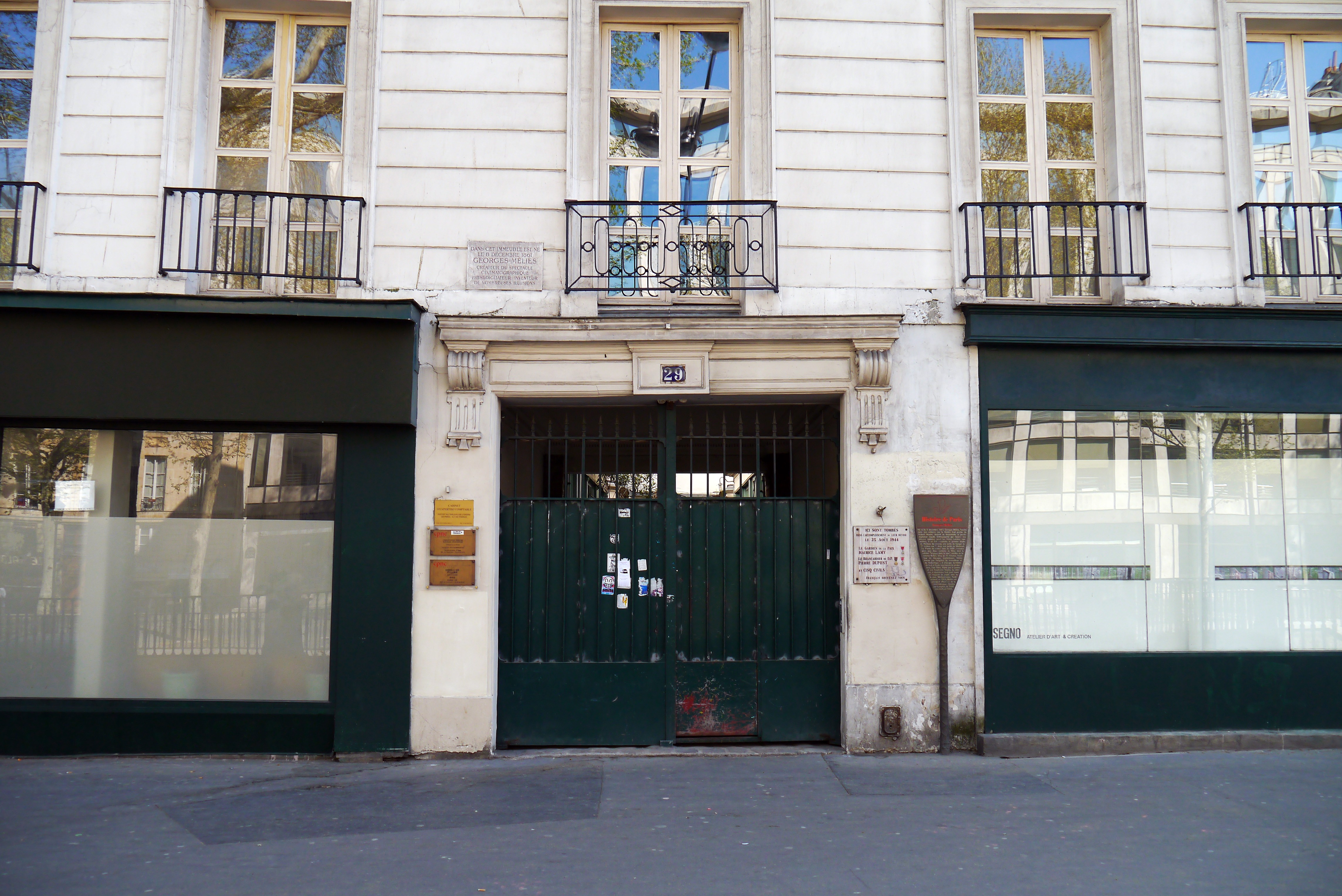 Passage des Orgues, Paris 3rd arrondissement, France. Access from 29 boulevard Saint-Martin.